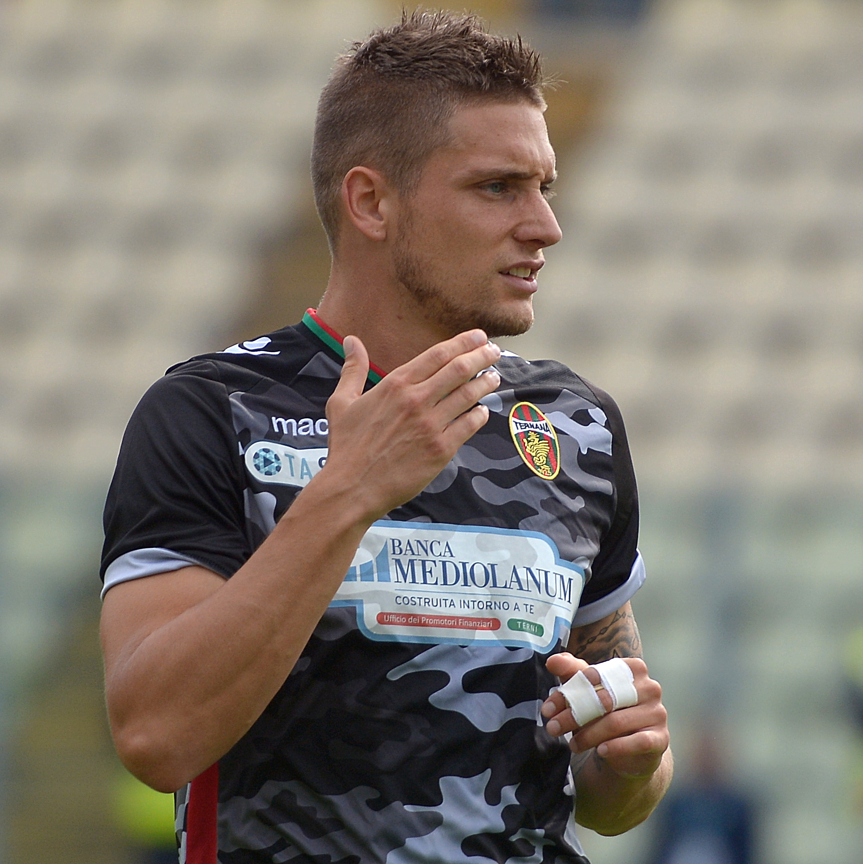 Jens Janse with the shirt of Ternana Football Club